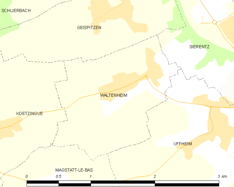 Map of French municipality